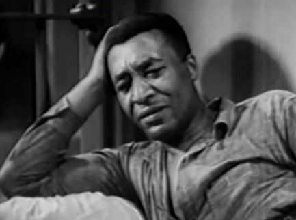 Daniel L. Haynes in The Last Mile - cropped screenshot